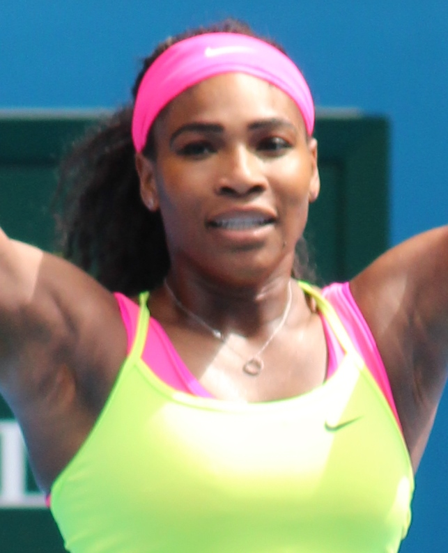 Serena Williams at the Australian Open 2015